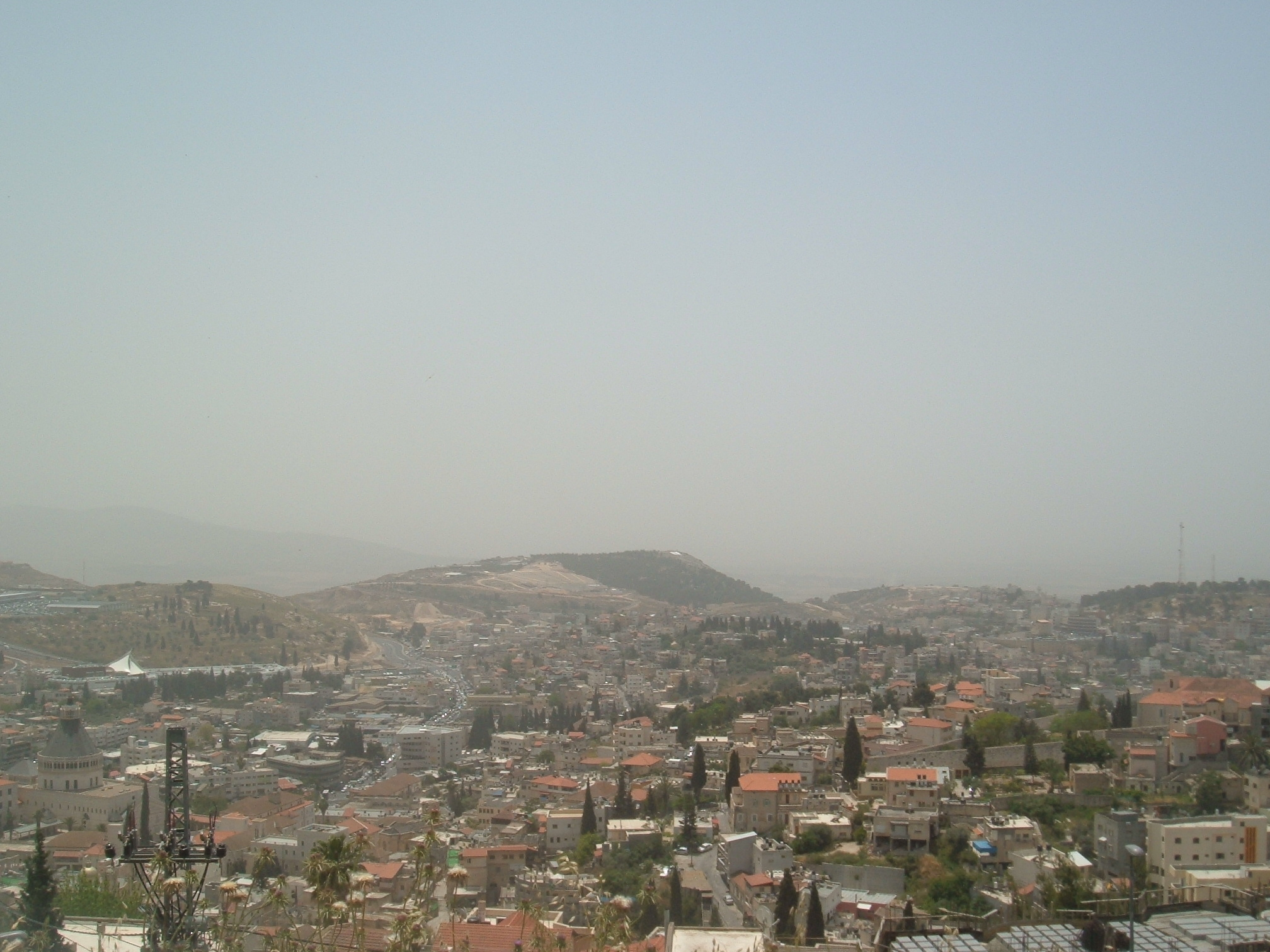 mount precipice as seen from Salesian church nazareth הר הקפיצה כפי שהוא נראה מהתצפית בכנסייה הסלזיאנית בנצרת